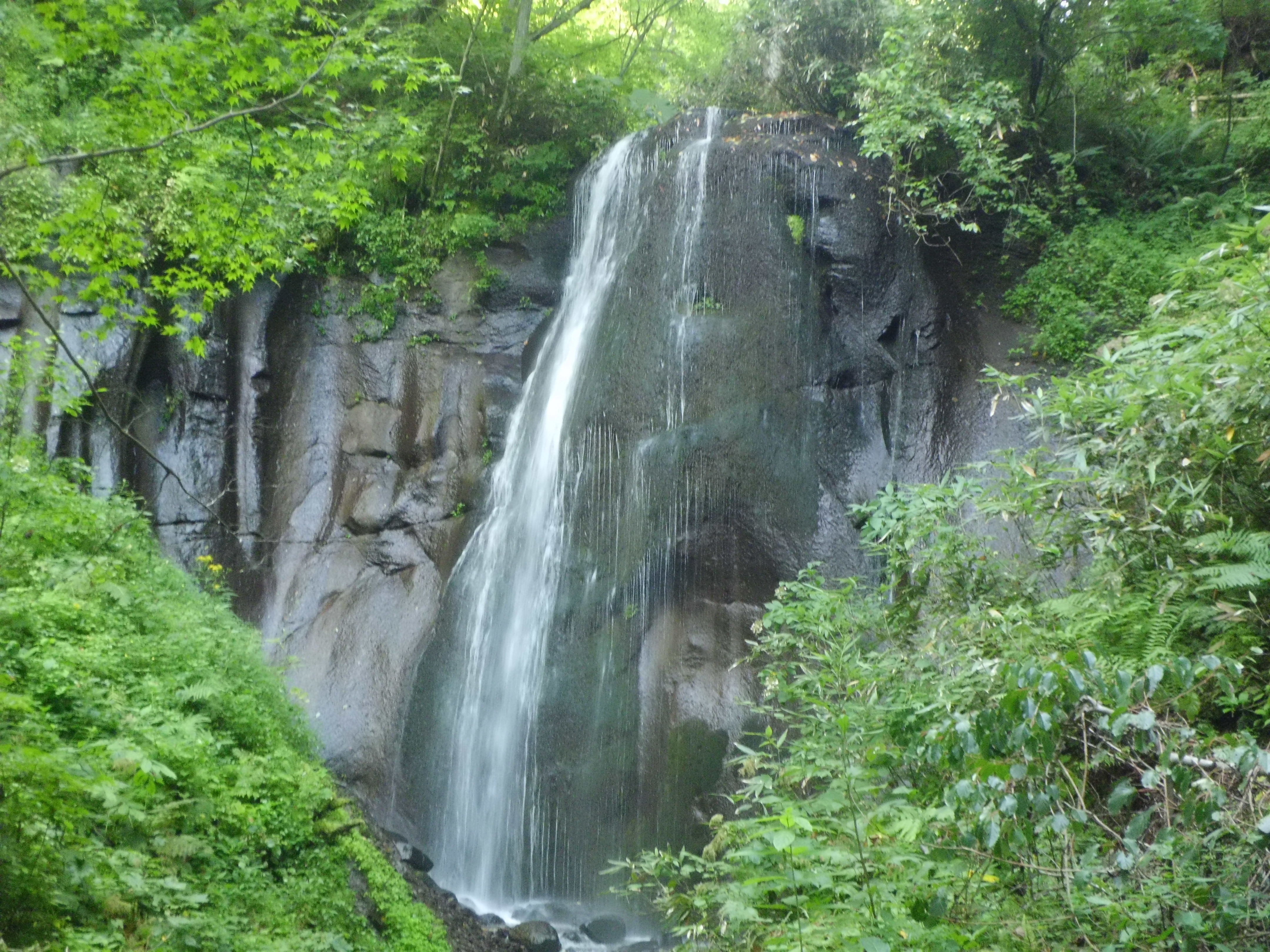 Ariake Fall